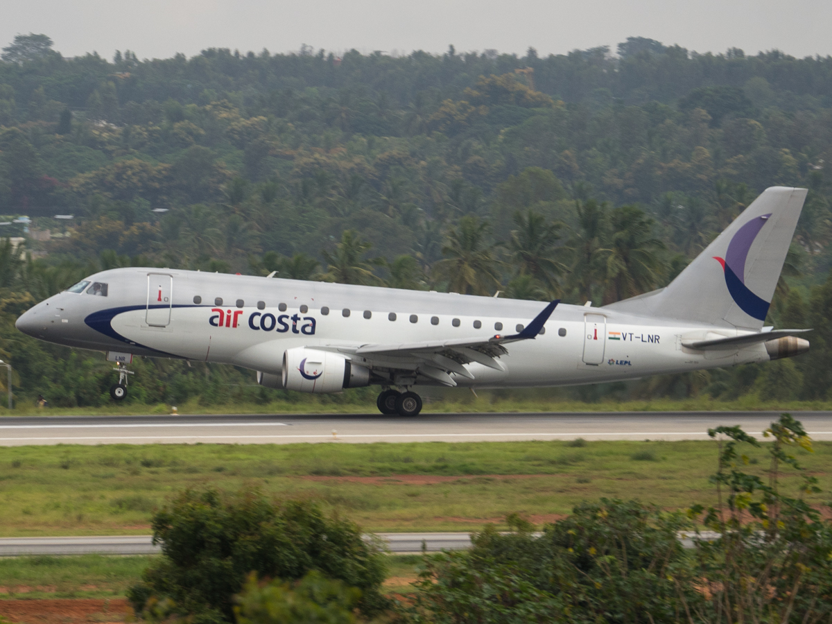 Air Costa Embraer 170LR registered VT-LNR at Kempegowda Intl Airport Bengaluru